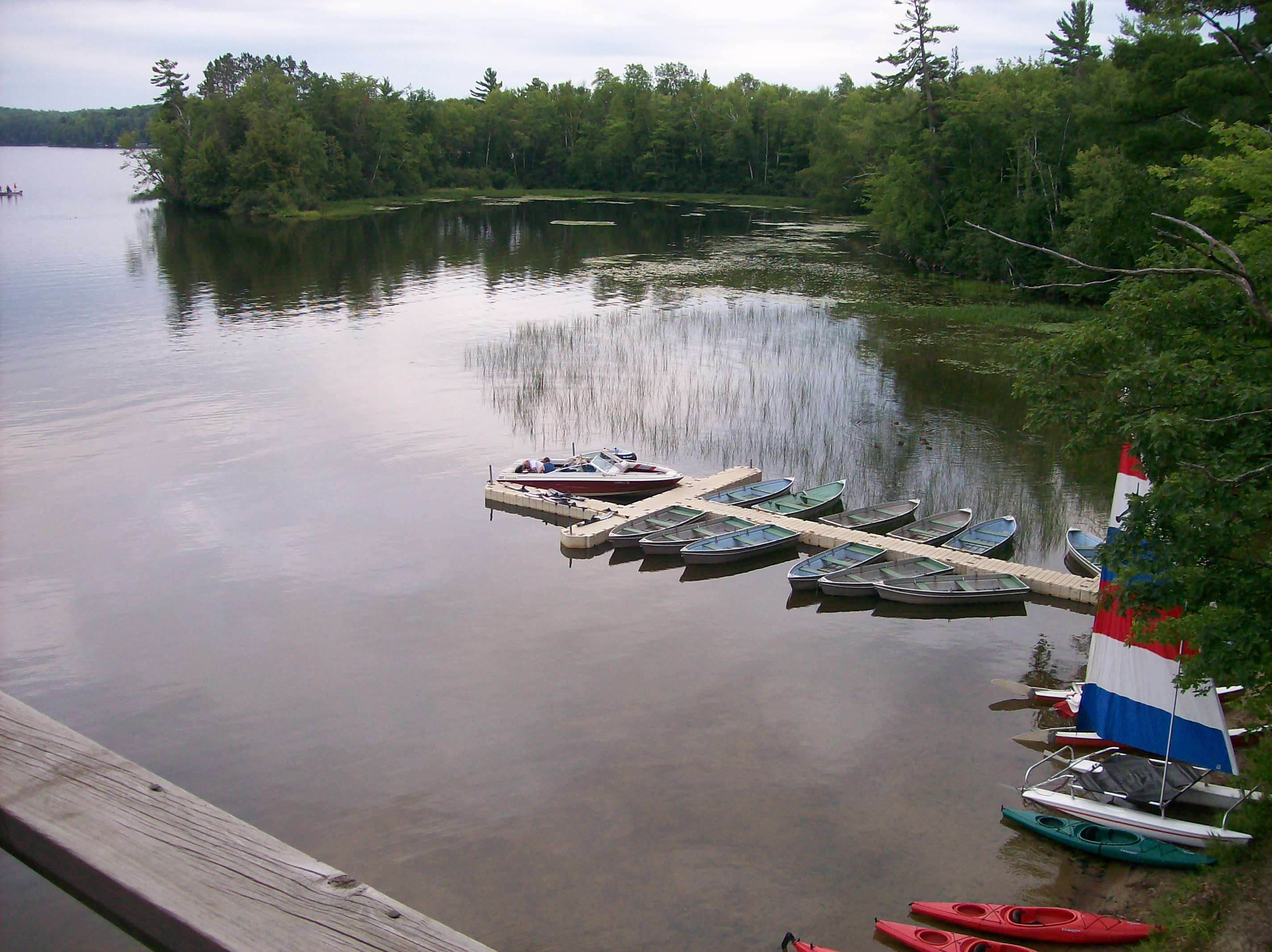 A view of the boats of the waterfront at Camp Mach-Kin-O-Shiew